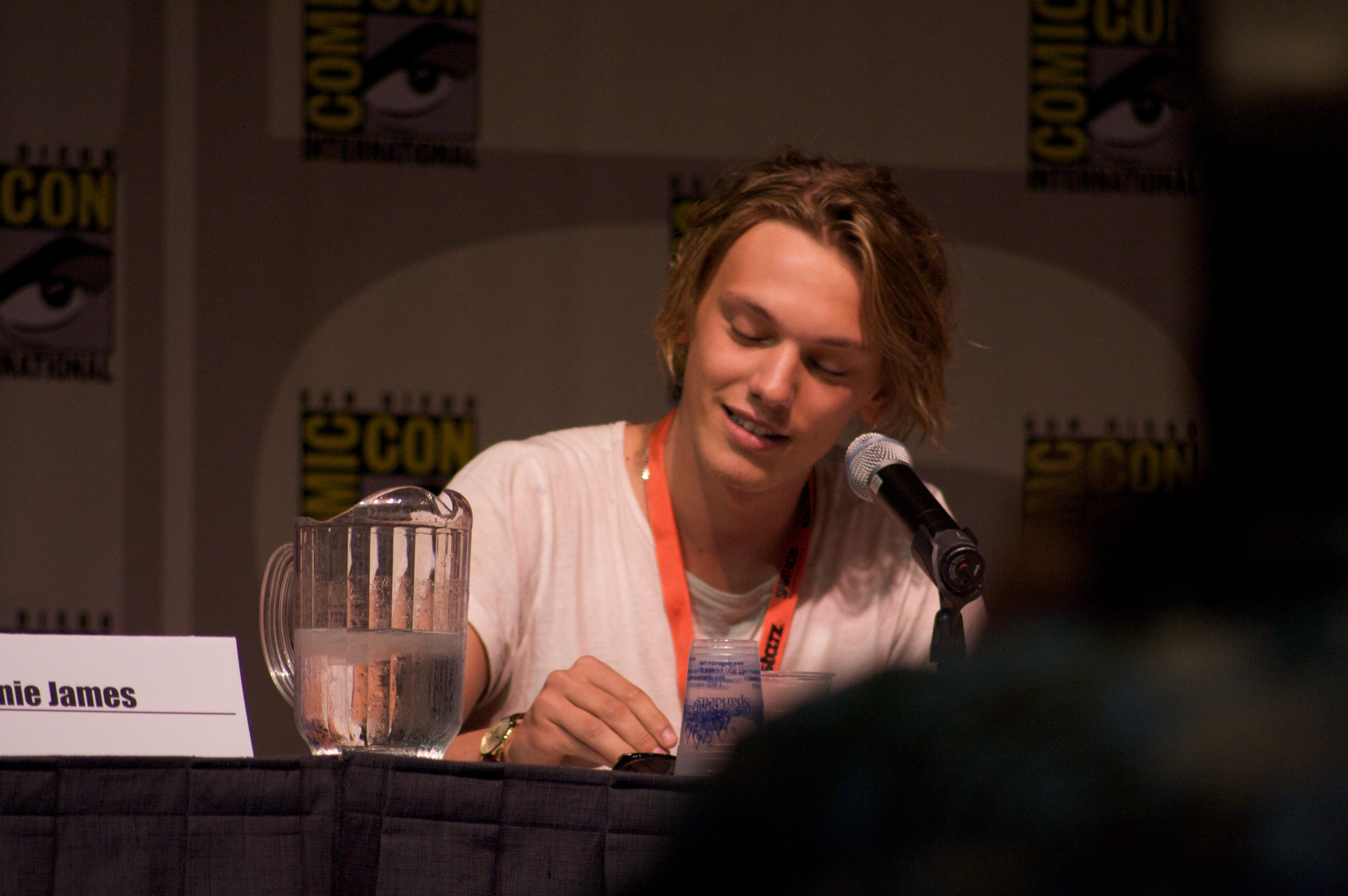 Jamie Campbell Bower, who plays number 1112, the son of Number 2 in the Prisoner remake.